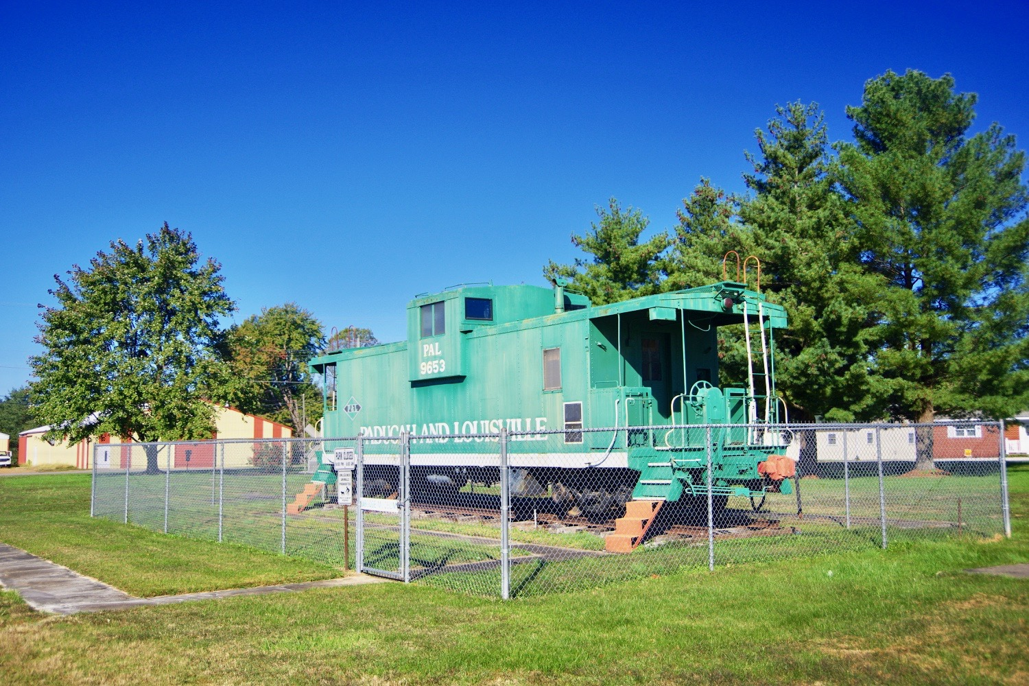 Paducah & Louisville Railway caboose on display in Kevil, Kentucky, United States.